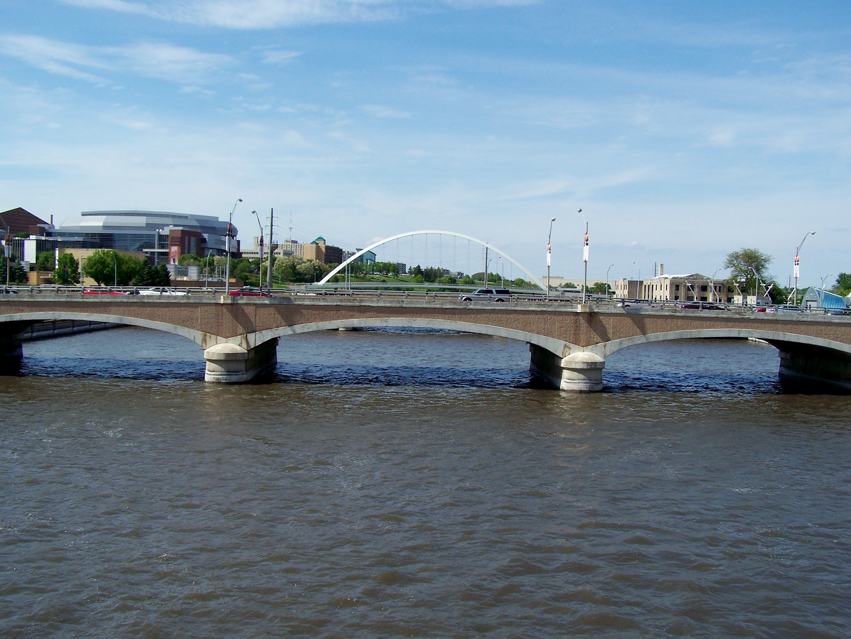 The Des Moines River from the Walnut Street Bridge looking at the Locust Street Bridge. Beyond that is the arch of the new pedestrian bridge over the river. Wells Fargo Arena and Veterans Memorial Auditorium can be seen in the upper left.